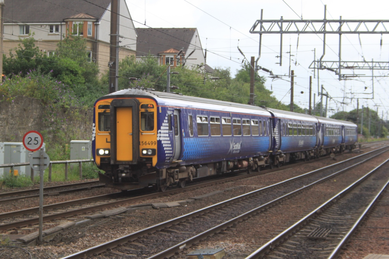 Abellio ScotRail units 156499 and 156504 are approaching Haymarket station, the penultimate call of their Glasgow Central to Edinburgh service.